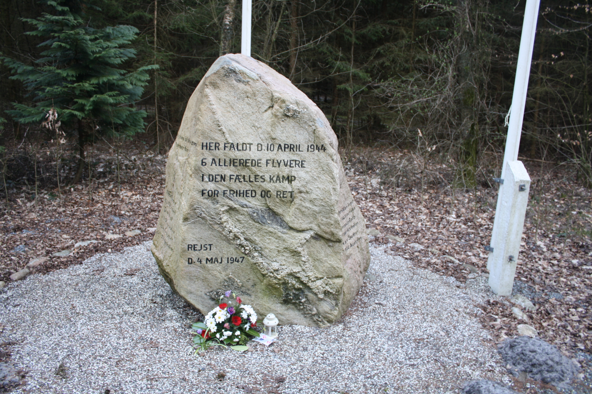 Memorial stone in Donnerup Plantage, Denmark, to 6 allied airmen crashed april 10 1944